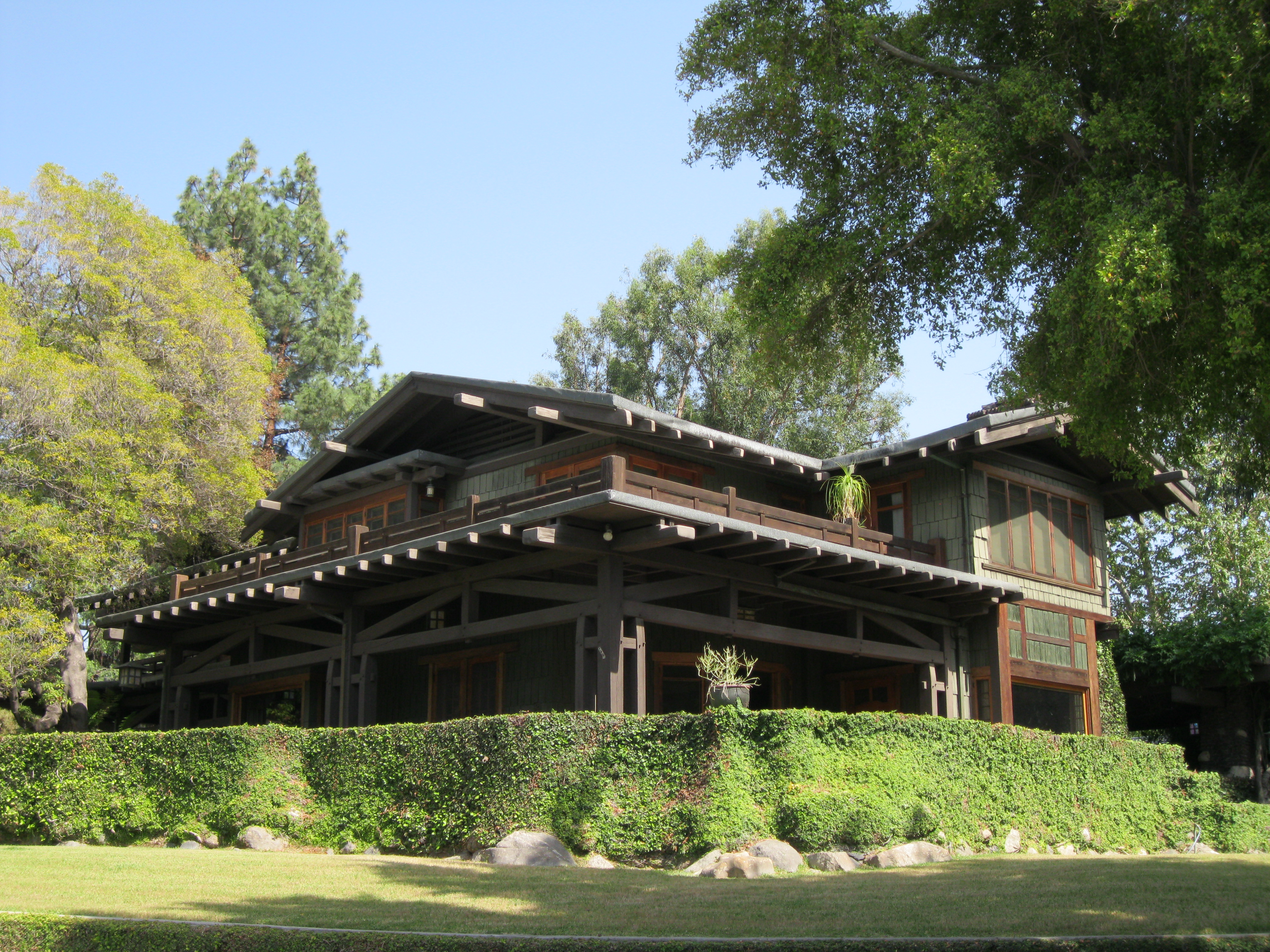 The house at 240 Grand Avenue in the Park Place-Arroyo Terrace Historic District in Pasadena, California. The district is listed on the National Register of Historic Places.